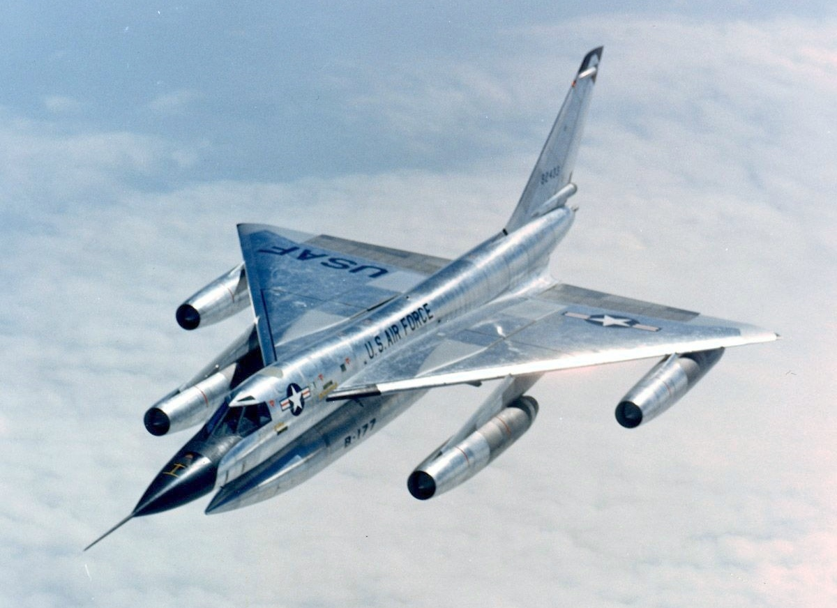 B-58 (modified)